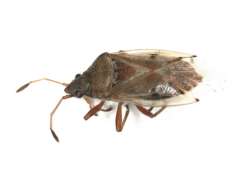 Kleidocerys resedae (Lygaeidae) - (imago), Molenhoek - NS-terrein, the Netherlands